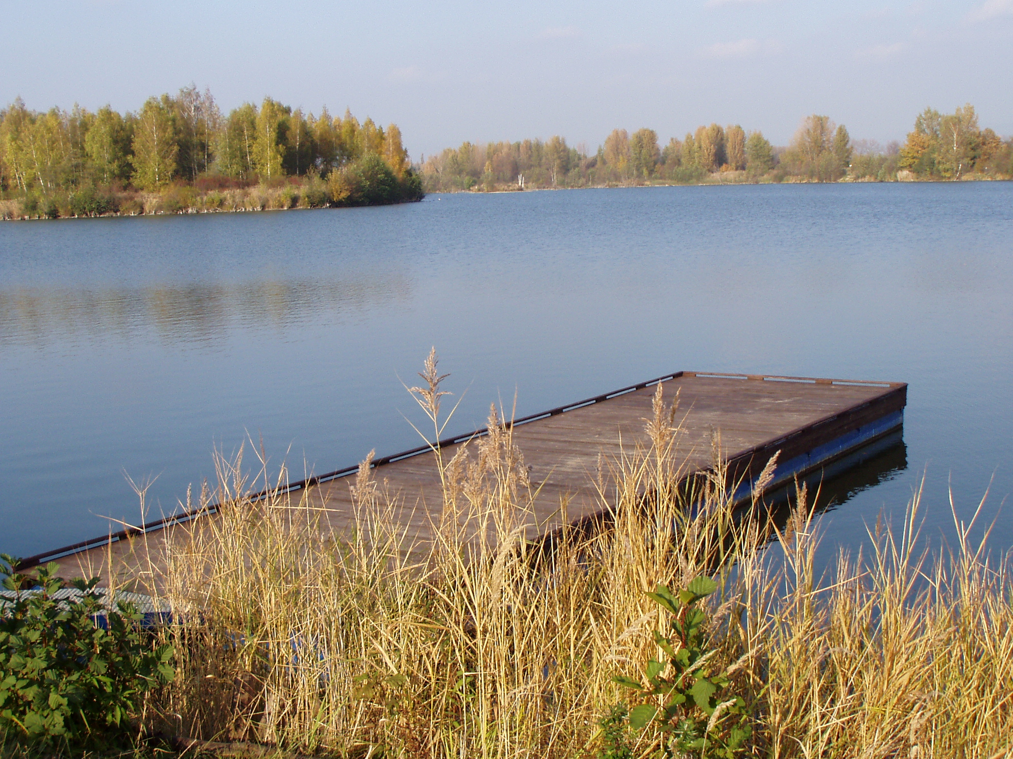 Chomoutov lake Česky: Chomoutovské jezero